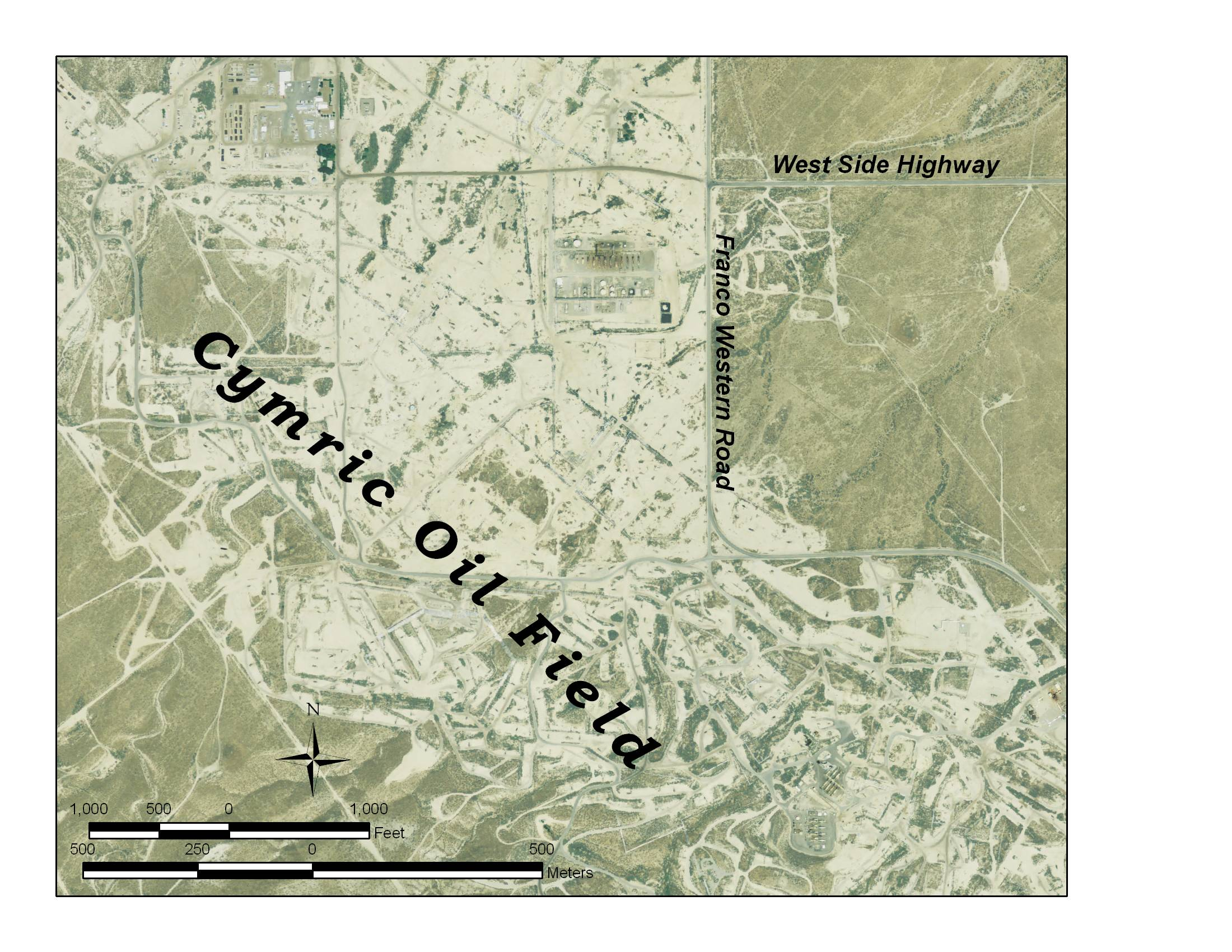 Aerial photograph of central operations region at Cymric.